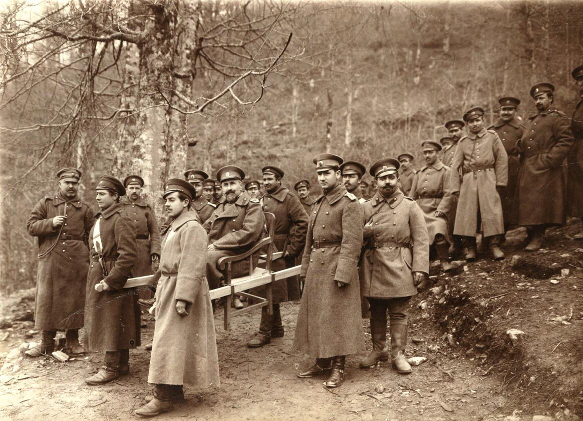 General Grigor Kyurkchiev